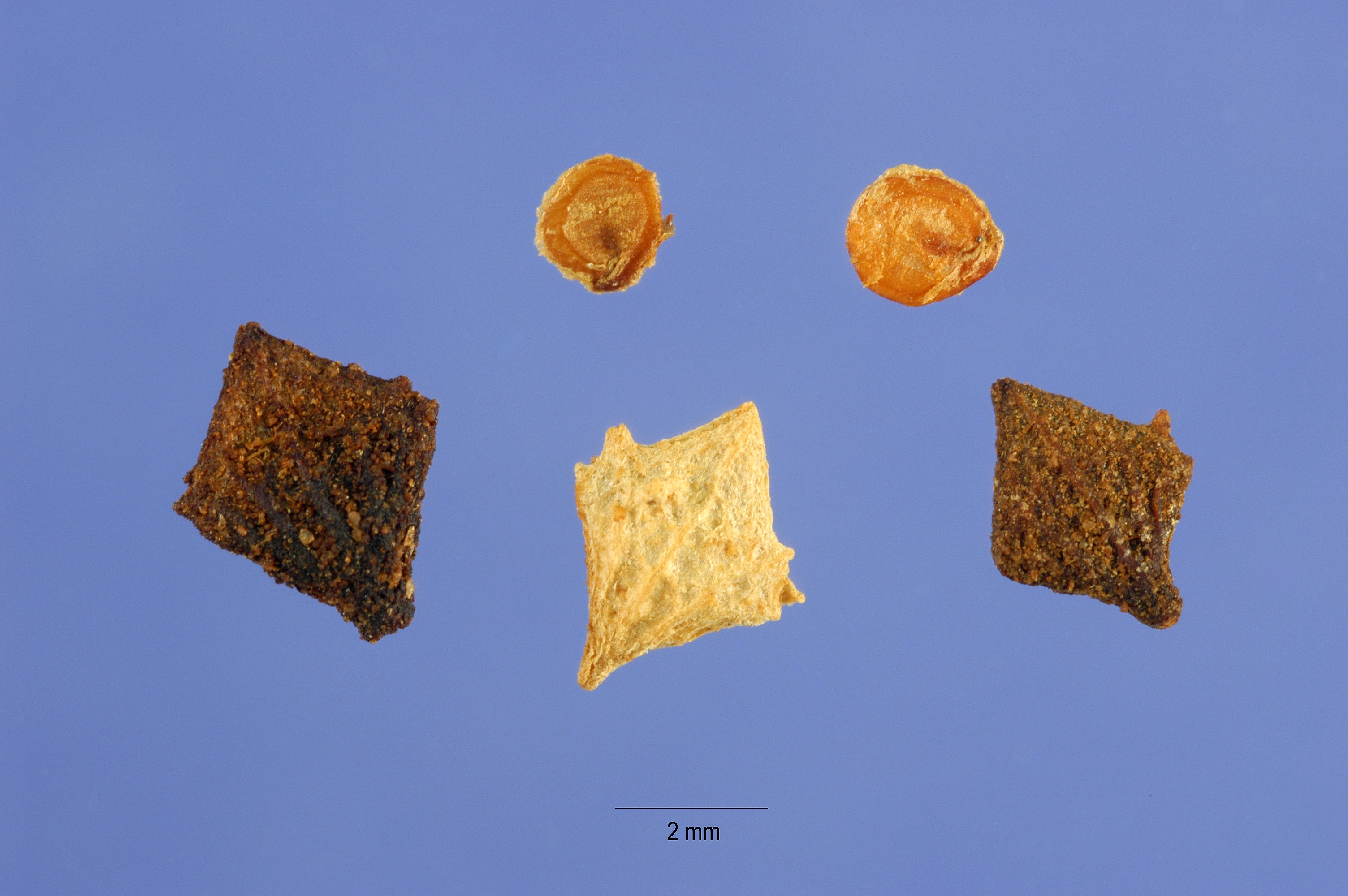 seeds of Atriplex semibaccata from Steve Hurst. Provided by ARS Systematic Botany and Mycology Laboratory. South Africa.